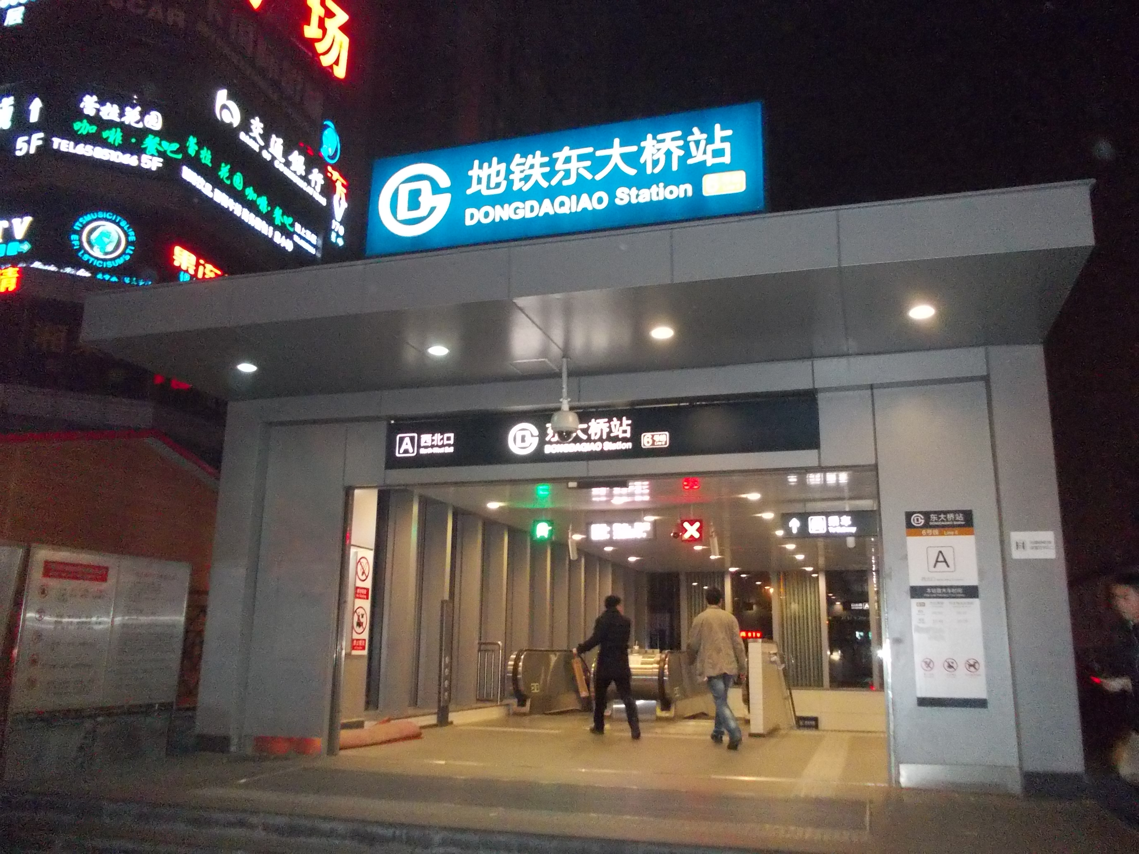 Beijing Subway - Dongdaqiao - Exit A